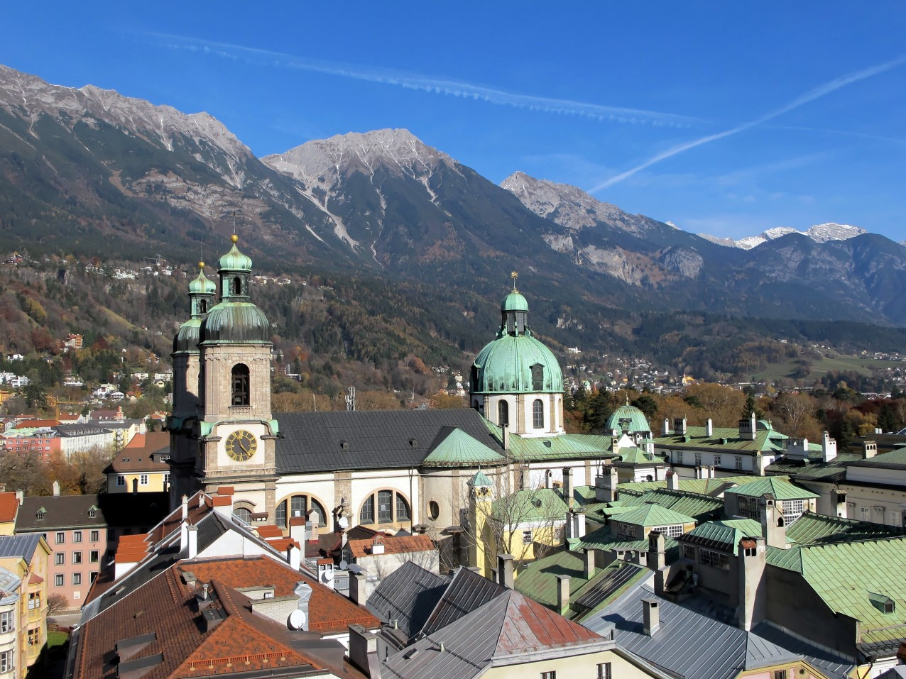 Innsbruck, Dome, view from Tower "Altstadtturm"